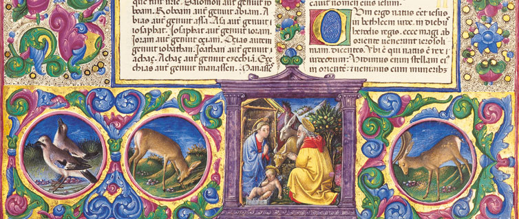 CRIVELLI, Taddeo Bible of Borso d'Este Illumination on parchment Biblioteca Estense, Modena